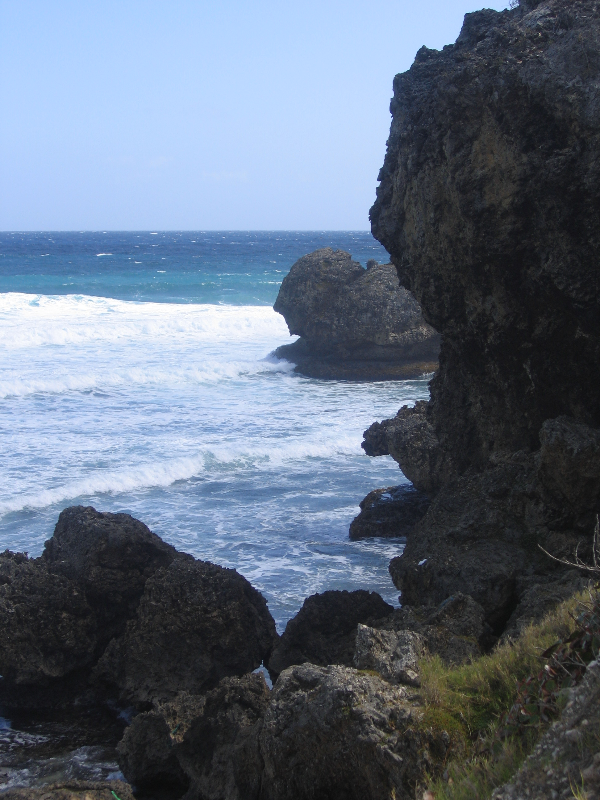 Rocks on Atlantic coast, Bathsheba, Saint Joseph, Barbados.